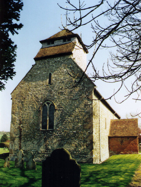 St Nicholas, Bishops Sutton Grade 1 listed building erected in the 12th century.